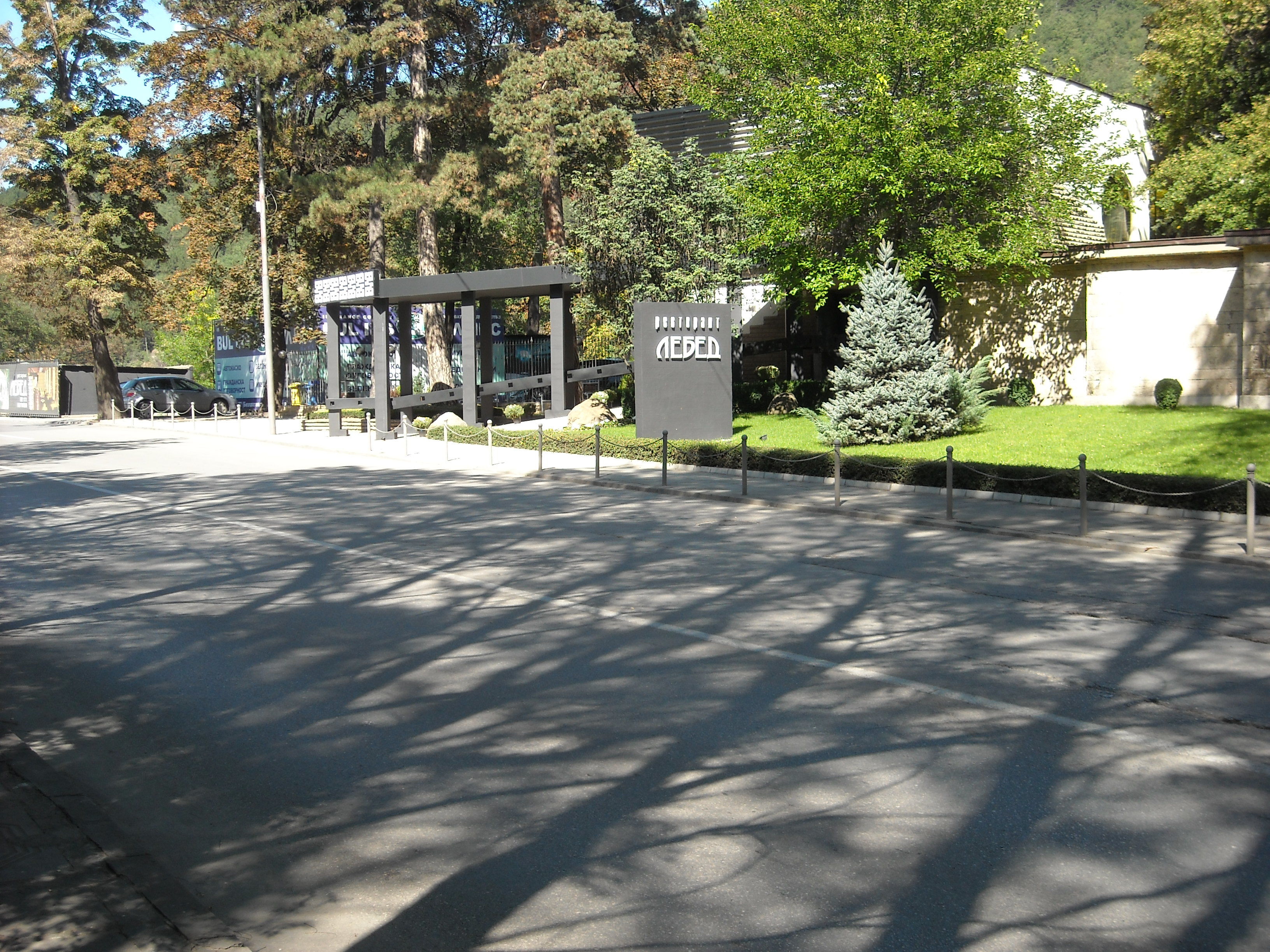 Restaurant "Lebed" in village Pancharevo near Sofia, Bulgaria